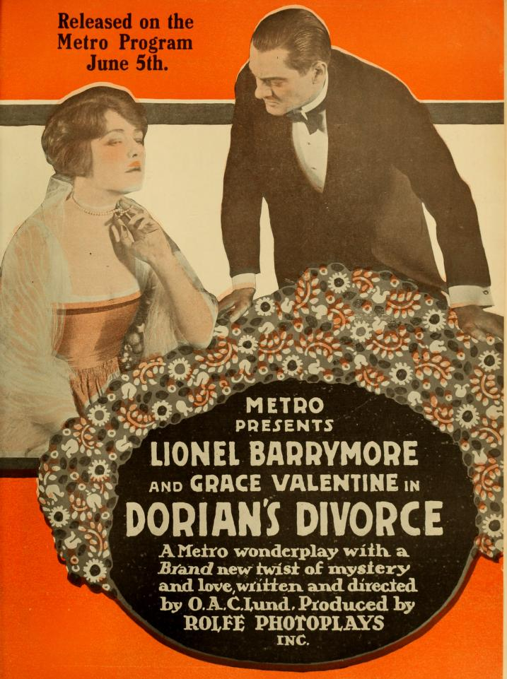 Advertisement in The Moving Picture World for the American drama film Dorian's Divorce (1916).